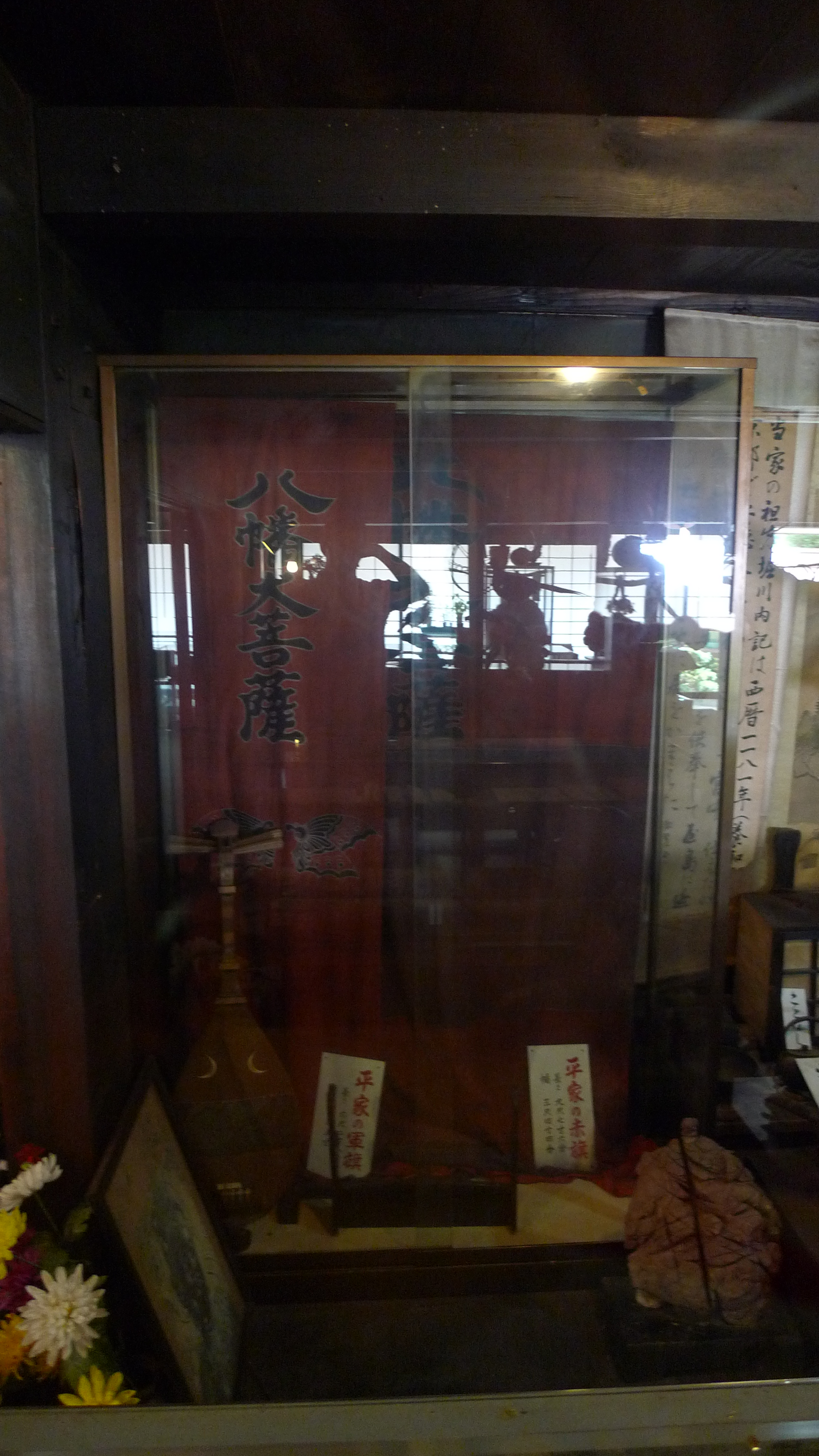 Red flag of Heike, the Folklore Museum of the Heike Estate, Miyoshi city, Tokushima pref, Japan.